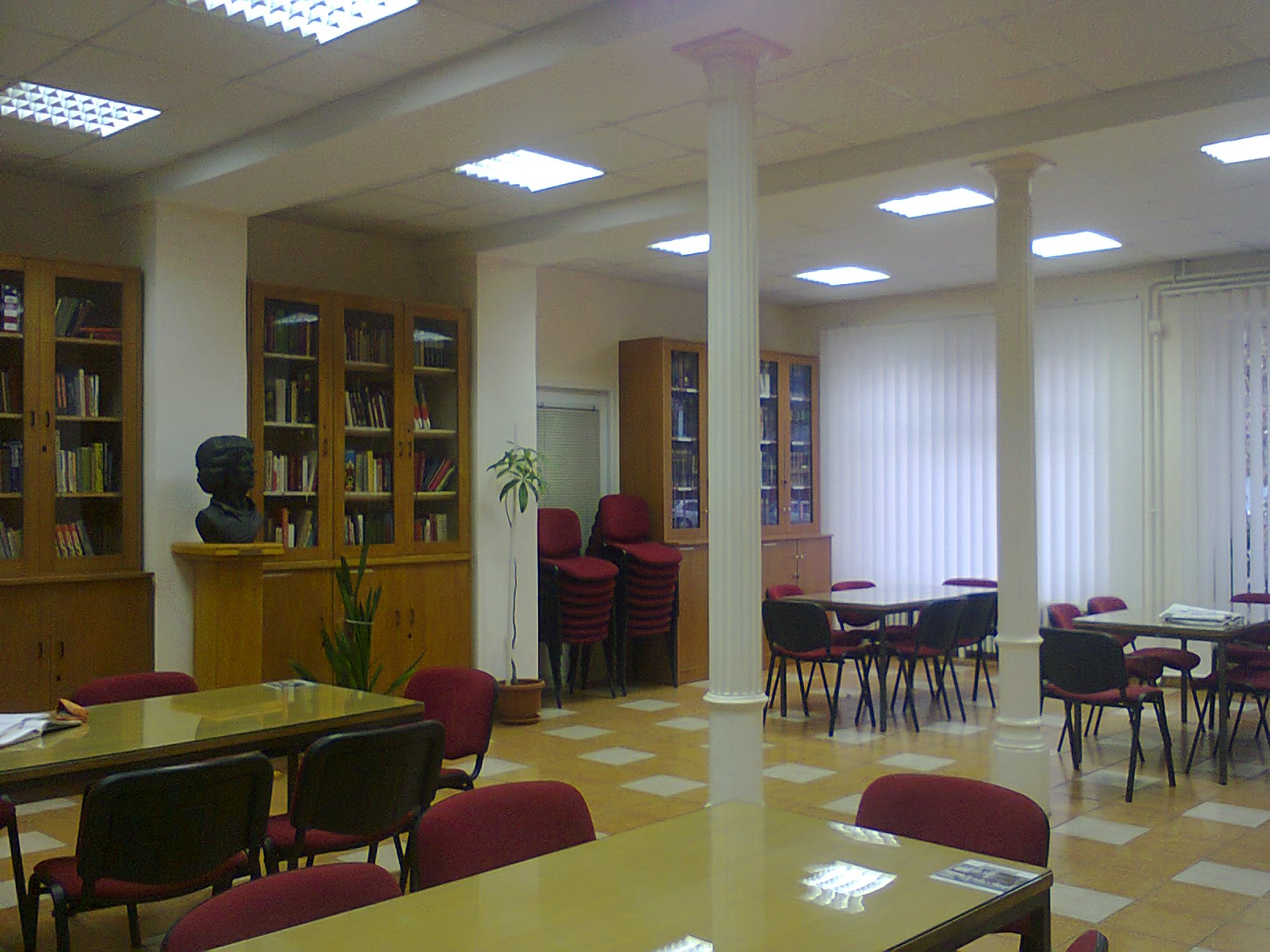 Читаоница у библиотеци Данило Киш у Врбасу.